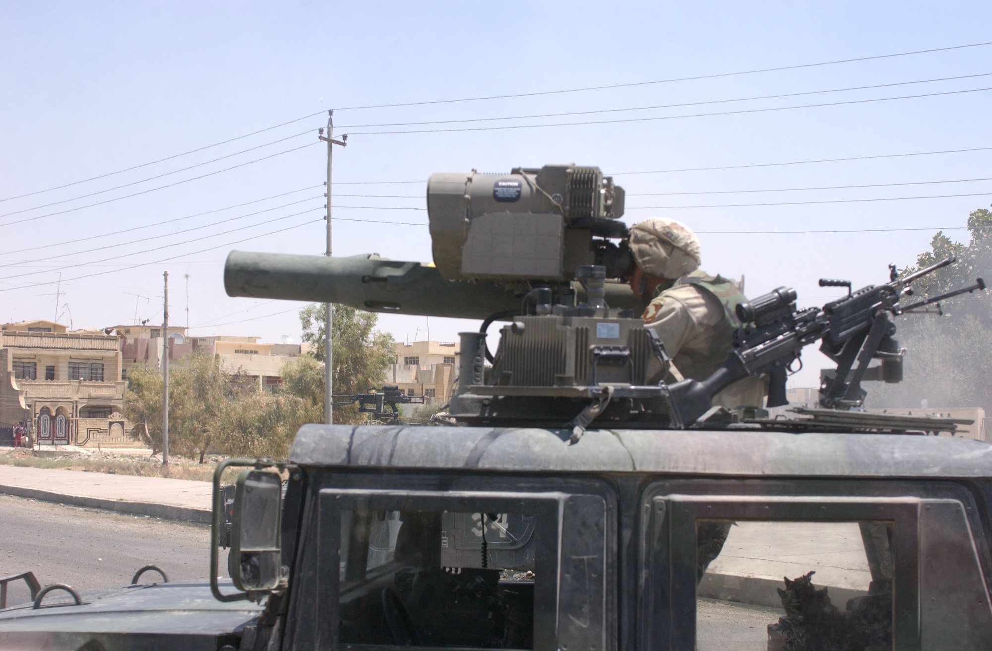 A soldier of the 101st Airborne Division (Air Assault) looks through the sights of a TOW missile launcher at a building suspected of harboring Saddam Hussein's sons Qusay and Uday in Mosul, Iraq, on July 22, 2003. Qusay and Uday were killed in a gun battle as they resisted efforts by coalition forces to apprehend and detain them.